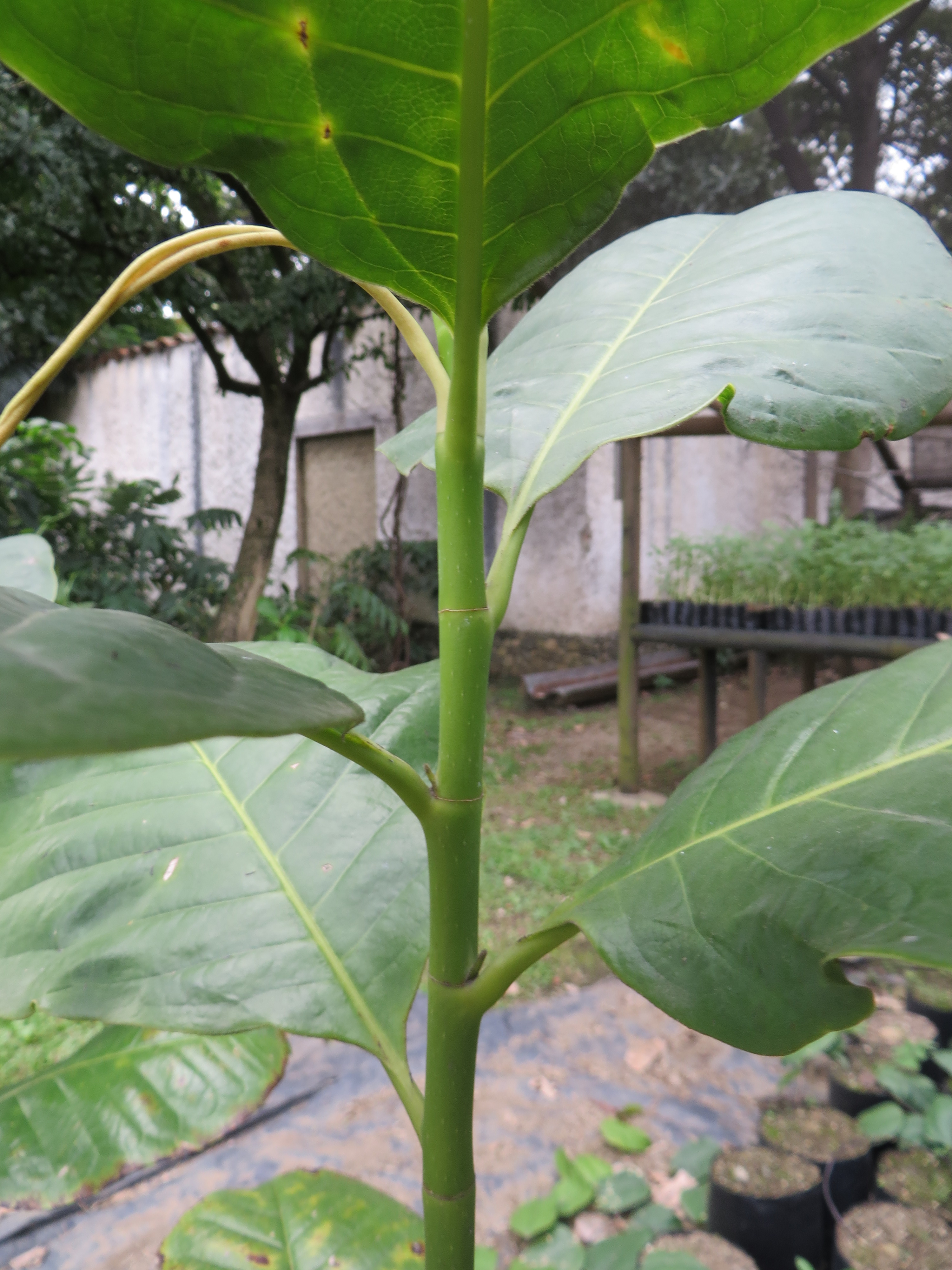 M. yarumalensis detail